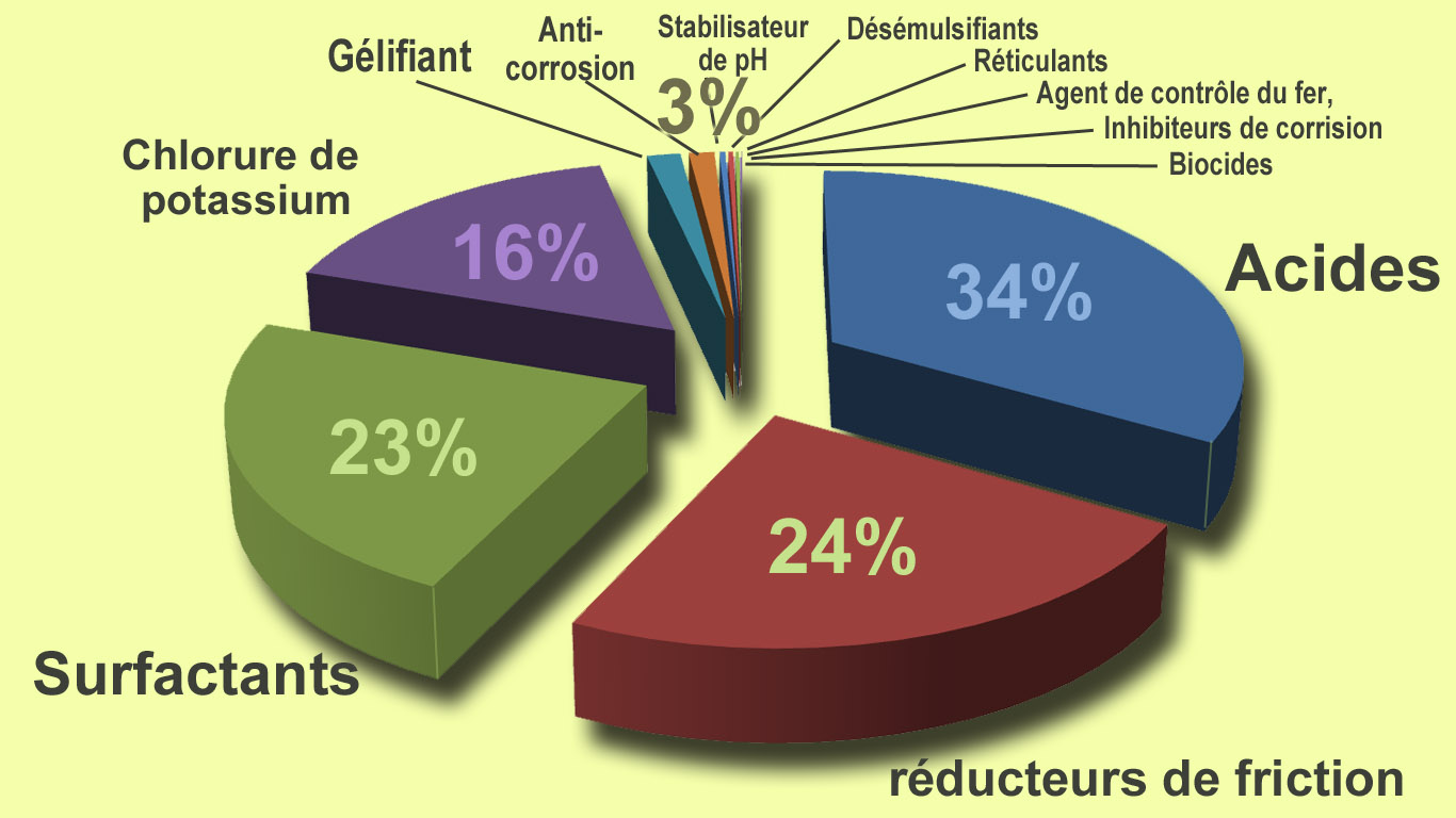 composition of chemicle additives of a "fracture fluid" ; source : ALL Consulting based on data from a fracture operation in the Fayetteville Shale, 2008 re-used by Modern shale gas development in the United States : A primer, retreived 2012-07-08 (voir p116)